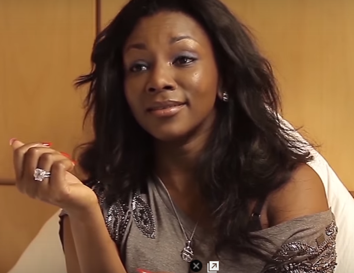 Genevieve Nnaji in Weekend Getaway - A bored bachelor meeting his online love, a married couple looking to revive the spark in their relationship and a wealthy cougar descend upon the tropical paradise that is Le Meridian Hotel in Akwa Ibom for a weekend getaway. Ramsey Nouah, Ini Edo, Genevieve Nnaji.